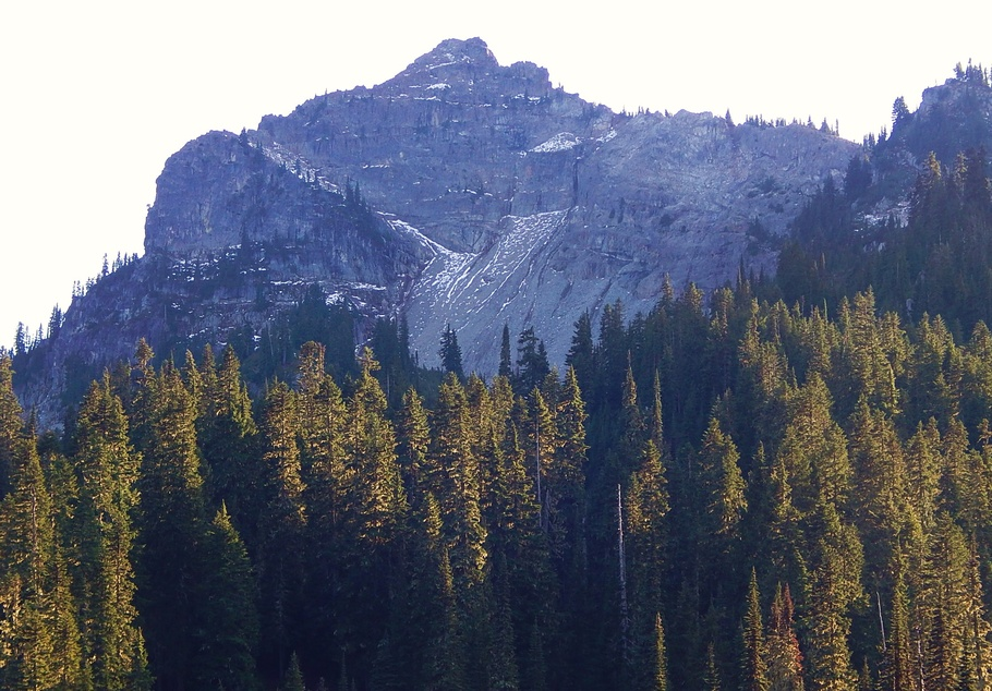 Dewey Peak 6710' on the eastern boundary line of Mount Rainier National Park. Seen from Dewey Lake.